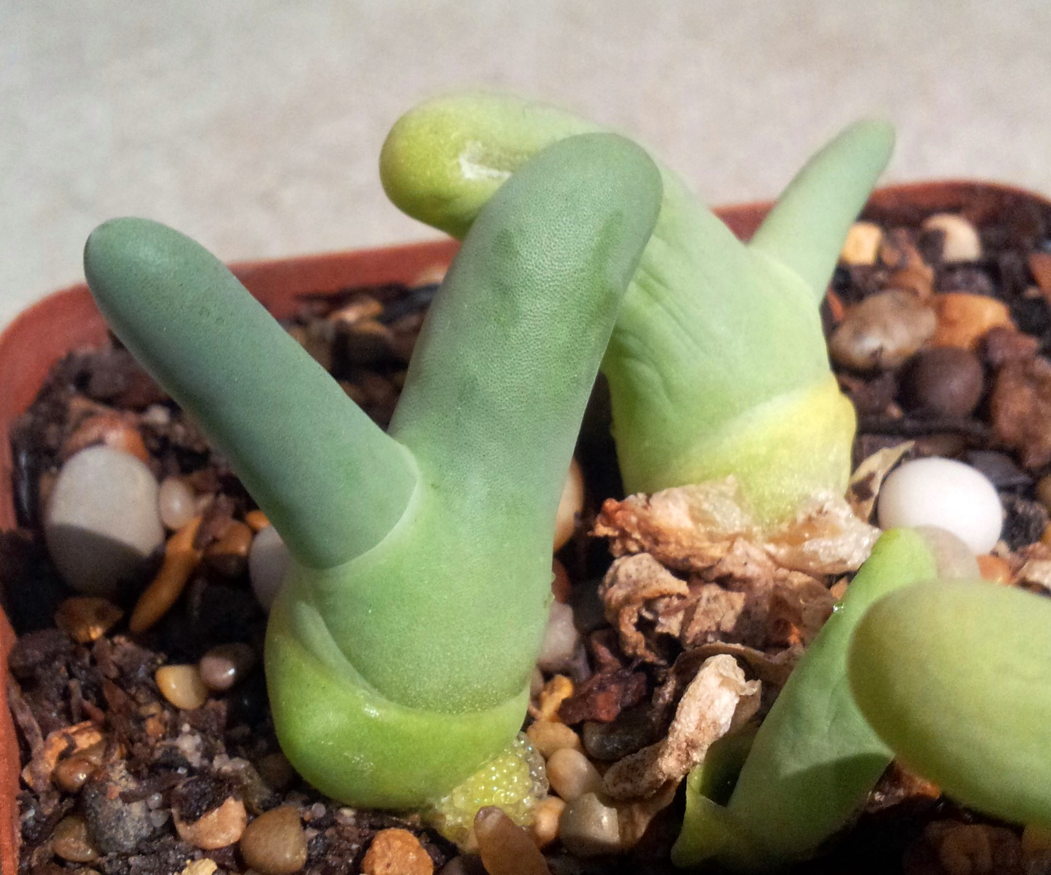 Dactylopsis digitata - previously Phyllobolus digitatus - previously Mesembryanthemum digitatum. Finger and thumb plant. Deciduous succulent from Namaqualand South Africa